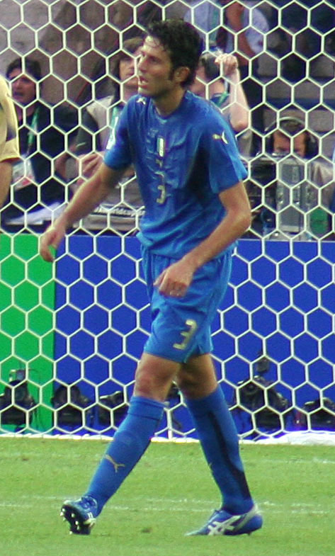 Italy vs France, FIFA World Cup 2006 final, italian midfielder Fabio Grosso.